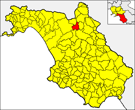 Locator map of the municipality of Contursi Terme (red) within the Province of Salerno